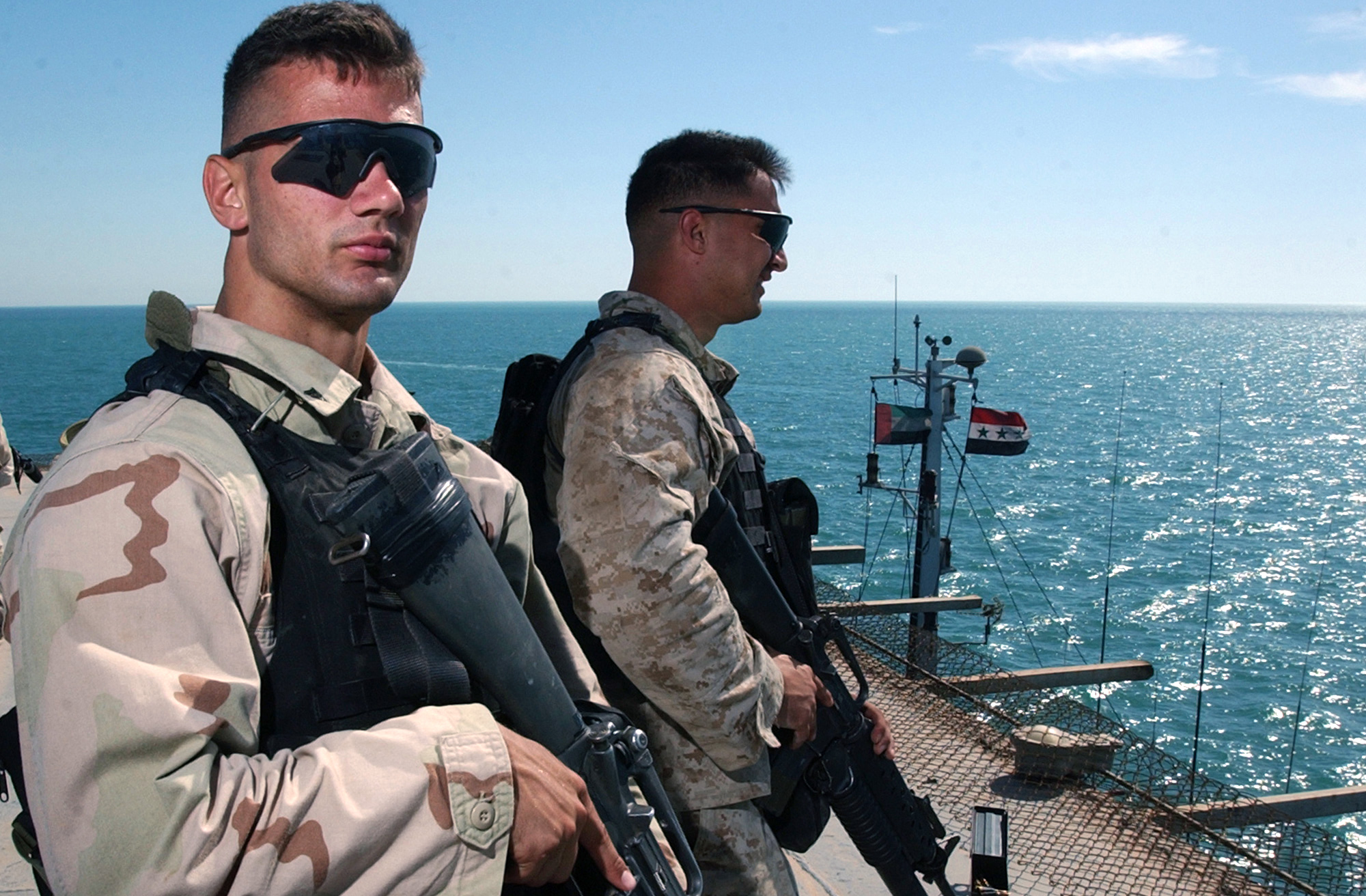 Northern Arabian Gulf (Apr 26, 2004) - Lance Cpl. Christopher Kotulski and Cpl. Paul O'Donnell stand a security watch on the flight deck of the Al Basrah Oil Terminal (ABOT). U.S. Marines from the 1st Fleet Anti-Terrorism Security Team (FAST) Battalion, of Norfolk, Va., are providing extra security along with the Iraqi security teams after an attempted suicide attack on Iraqi oil terminals on April 25th. U.S. Navy photo by Photographer's Mate 1st Class Alan D. Monyelle. (RELEASED)